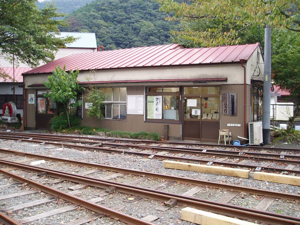 Kawane Ryogoku Sta.